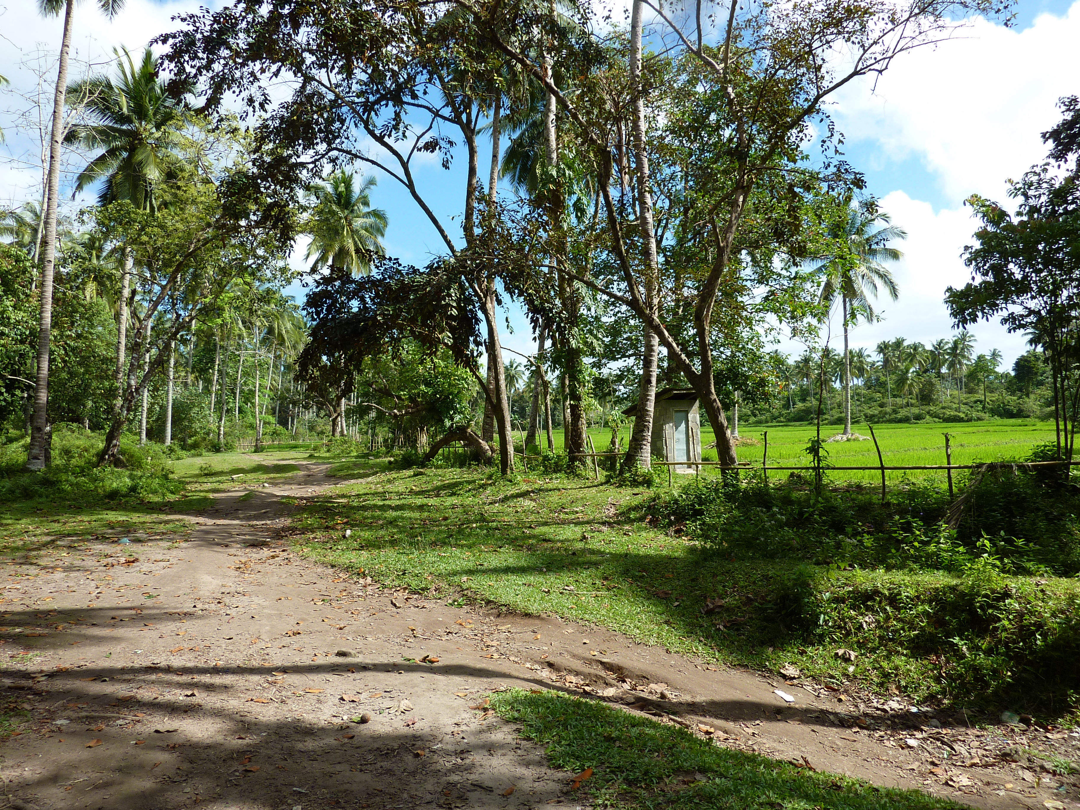 Small-scale rice farming near the town of Tubod, Surigao del Norte.